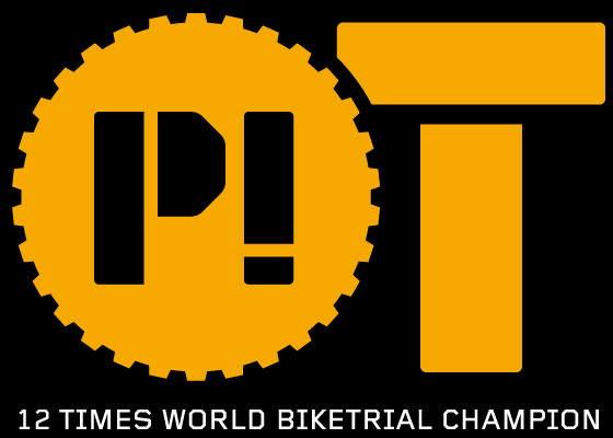 Logo Ot Pi